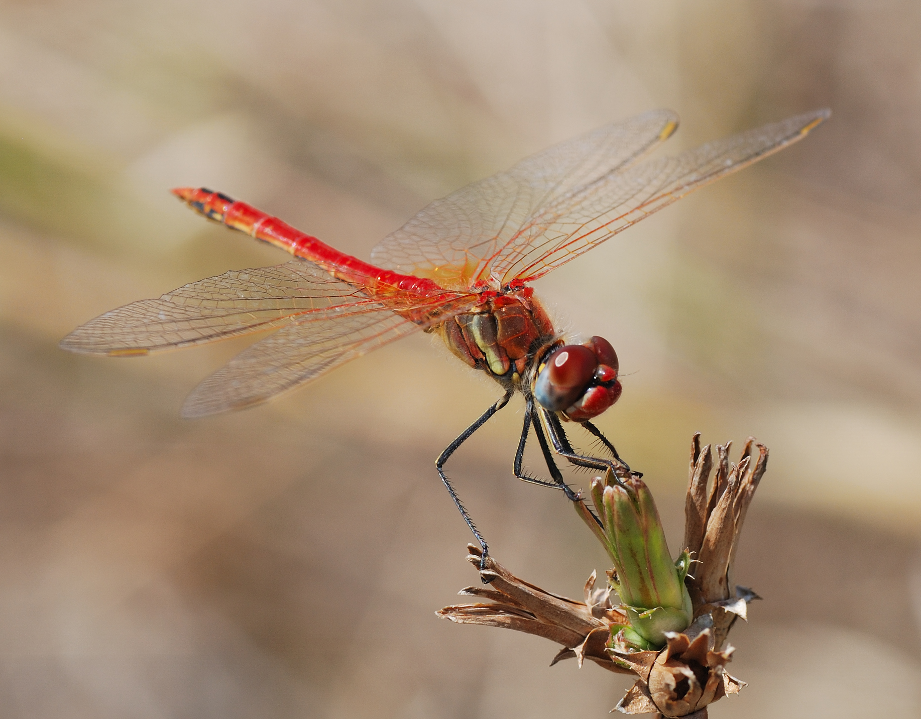 Male Red-veined darter dragonfly (Sympetrum fonscolombii)